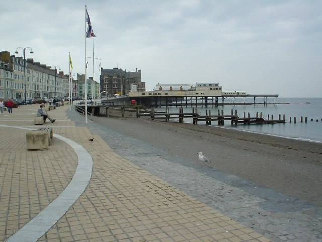 The Pier, Aberystwyth. Many traditional attractions survive in Aberystwyth. The pier is a super place to go for a nice cool ice-cream.